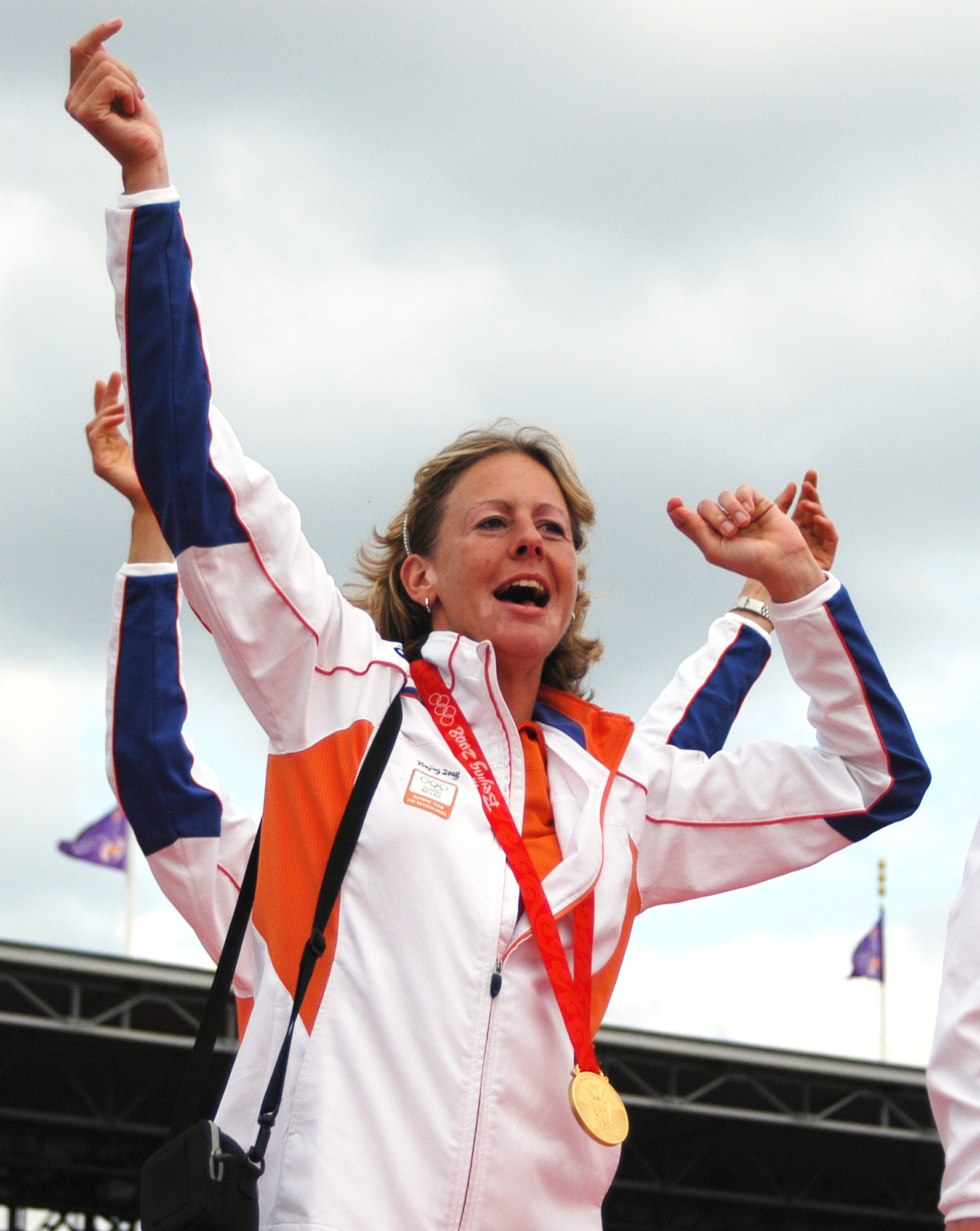 Kirsten van der Kolk at the Olympic welcome in the Olympic Stadium in Amsterdam, the Netherlands